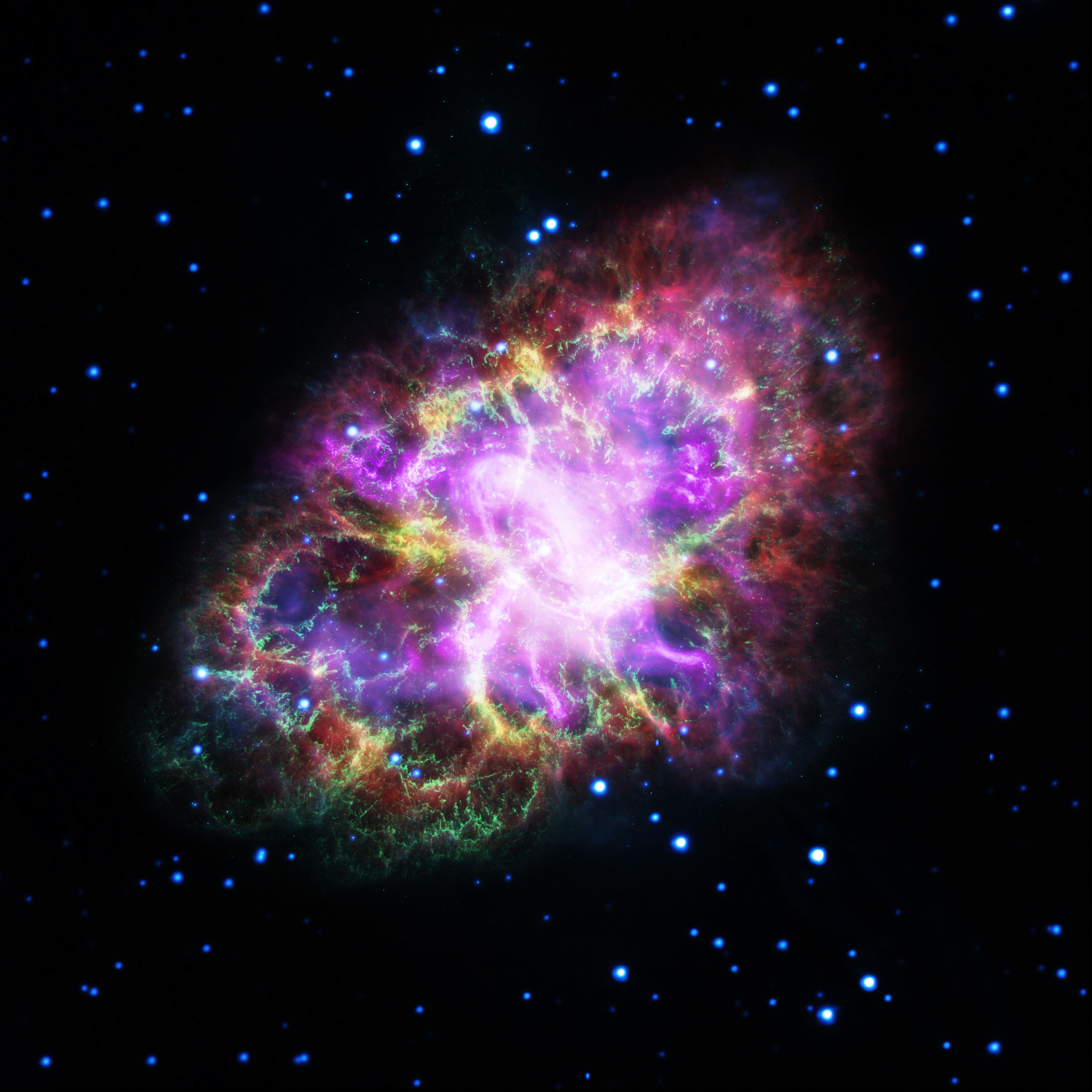 This captivating new image shows the Crab Nebula in bright neon colours. The unusual image was produced by combining data from telescopes spanning nearly the entire electromagnetic spectrum, from radio waves to X-rays. The Karl G. Jansky Very Large Array (VLA) provided information about the nebula gathered in the radio regime (coloured in red). NASA’s Spitzer Space Telescope took images in the infrared (yellow). The NASA/ESA Hubble Space Telescope provided the images made in optical wavelengths (coloured in green). ESA’s XMM-Newton telescope observed the Crab Nebula in the ultraviolet (blue) and NASA’s Chandra X-ray Observatory provided the data for X-ray radiation (purple). The Crab Nebula, located 6500 light-years from Earth in the constellation of Taurus (The Bull), is the result of a supernova explosion which was observed by Chinese and other astronomers in 1054. At its centre is a pulsar: a super-dense neutron star, spinning once every 33 milliseconds, shooting out rotating lighthouse-like beams of radio waves and visible light. Surrounding the pulsar lies a mix of material; some of it was originally expelled from the star before it went supernova, and the rest was ejected during the explosion itself. Fast-moving winds of particles fly off from the neutron star, energising the dust and gas around it. These different layers and intricacies of the nebula can be observed in all of the different wavelengths of light.